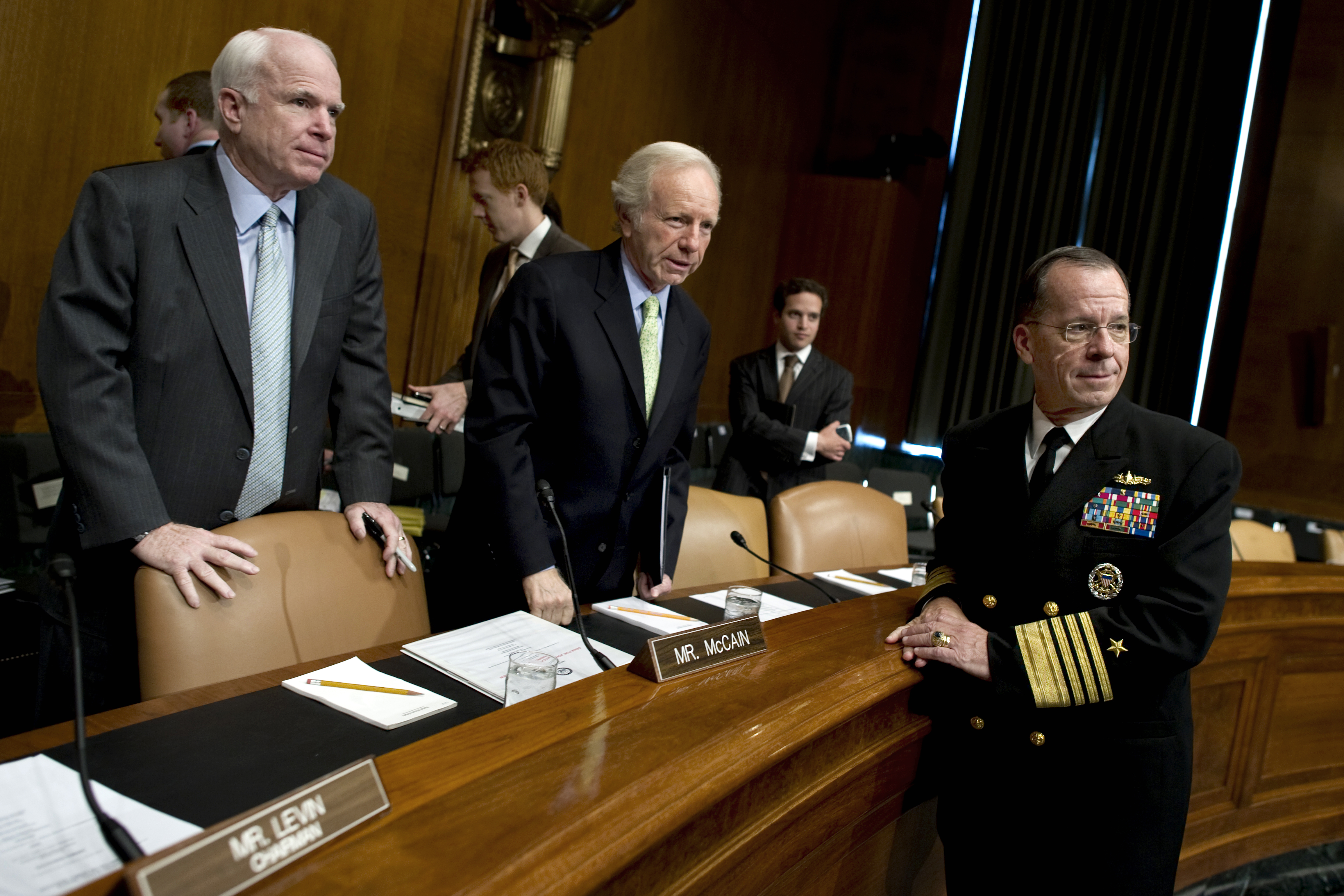 Navy Adm. Mike Mullen, chairman of the Joint Chiefs of Staff, greets Sens. John McCain of Arizona, left, and Joseph Lieberman of Connecticut before a Senate Armed Services Committee hearing on the new Strategic Arms Reduction Treaty and its implications for national security programs in Washington, D.C., June 17, 2010.